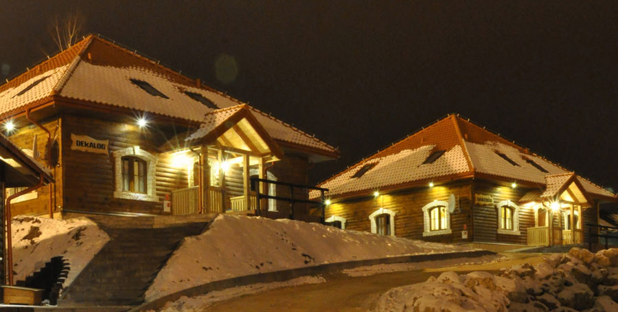 Domki rodzinne – jedna z opcji noclegu w Szwajcarii Bałtowskiej